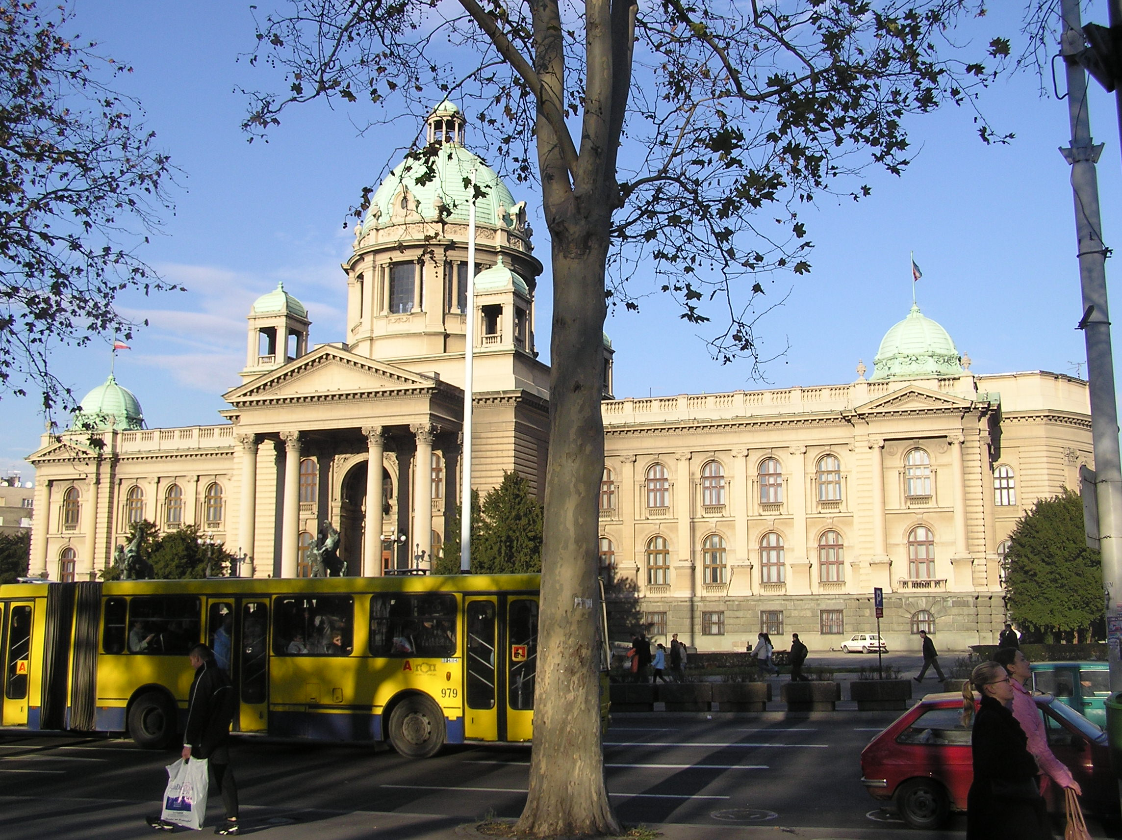 National assembly building. Filip Maljkovic